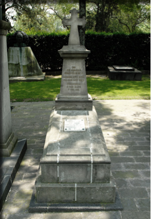 Sepulcro de Francisco Montes de Oca en la Rotonda de las Personas Ilustres (México)